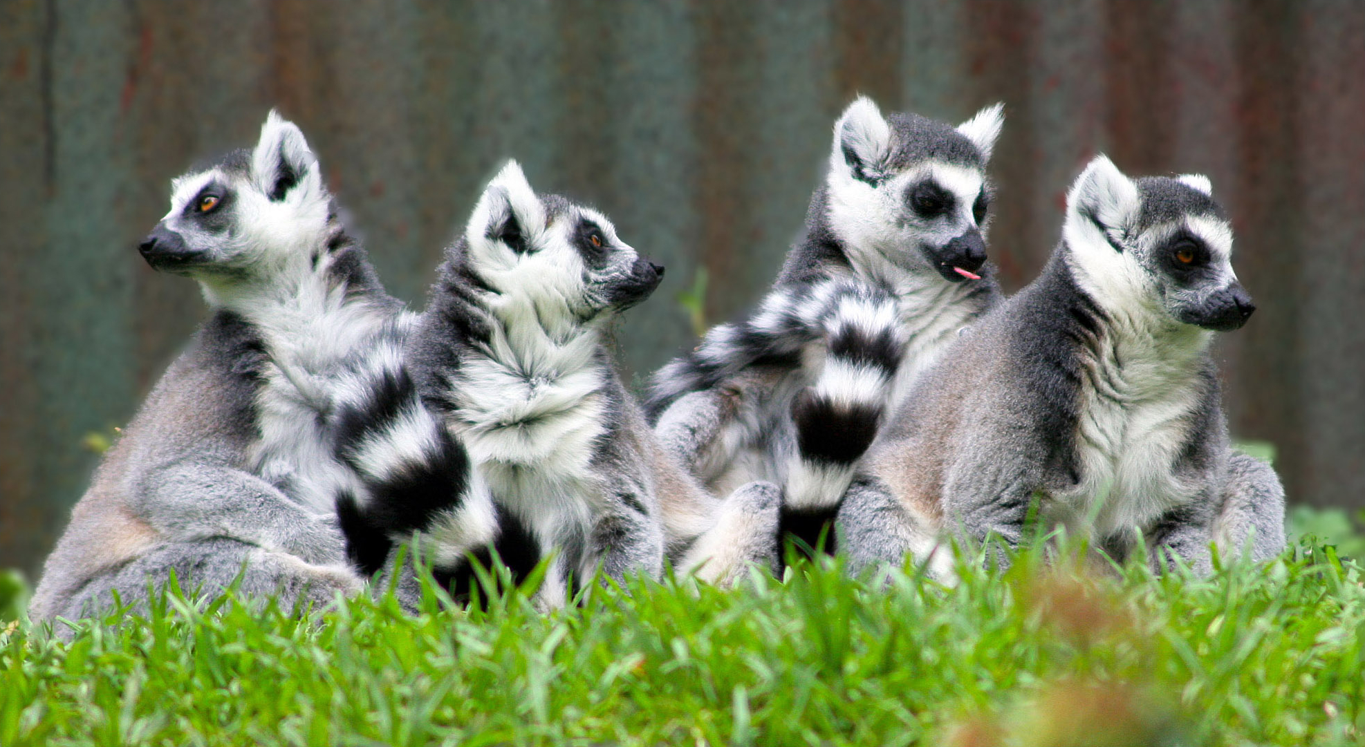 There's always one joker in the family... Taken at Auckland Zoo, New Zealand.